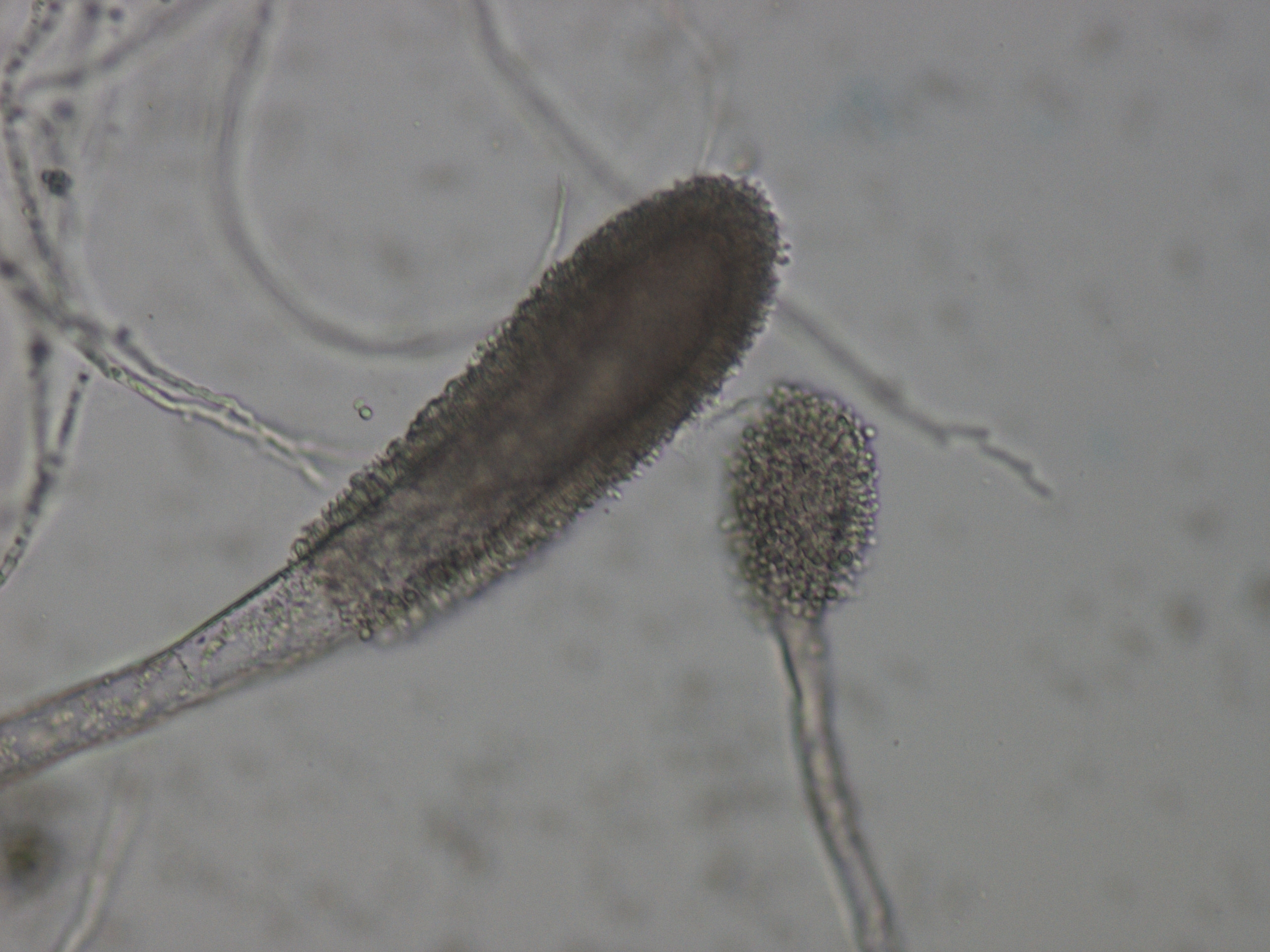 Aspergillus clavatus Conidial Heads